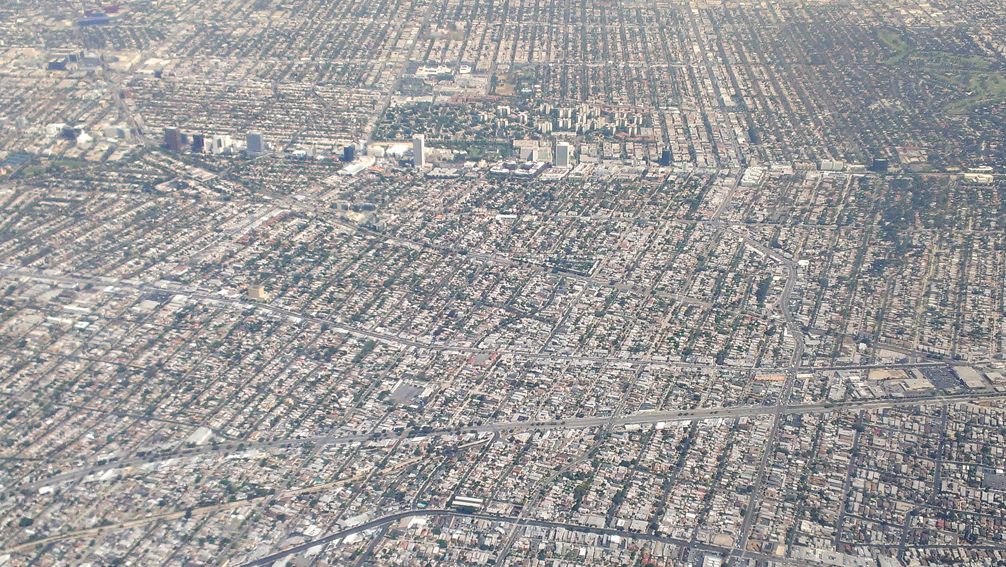 Wilshire Blvd is the street running horizontally with the tall buildings.